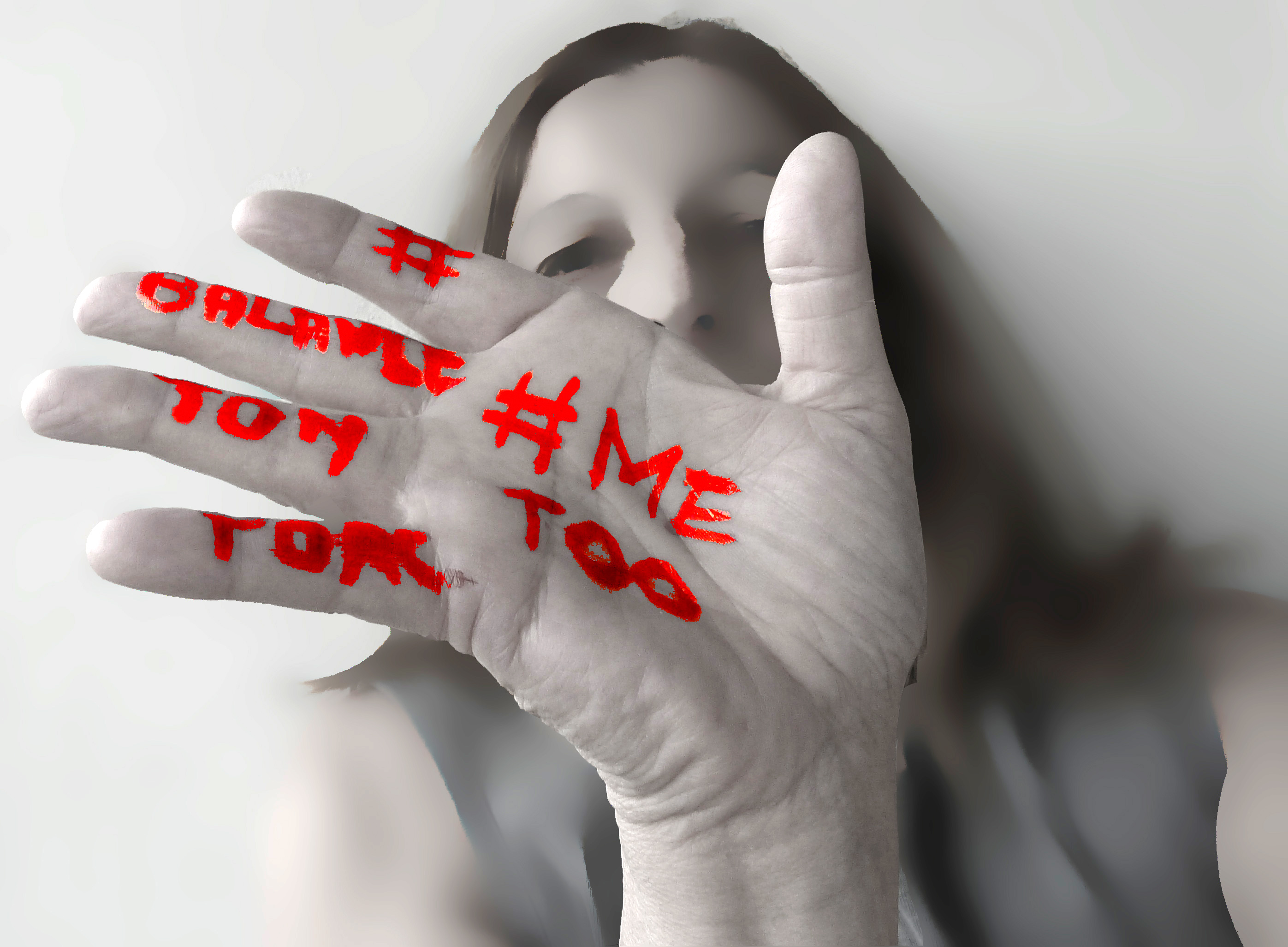 The meetoo hashtag, #meetoo on an hand